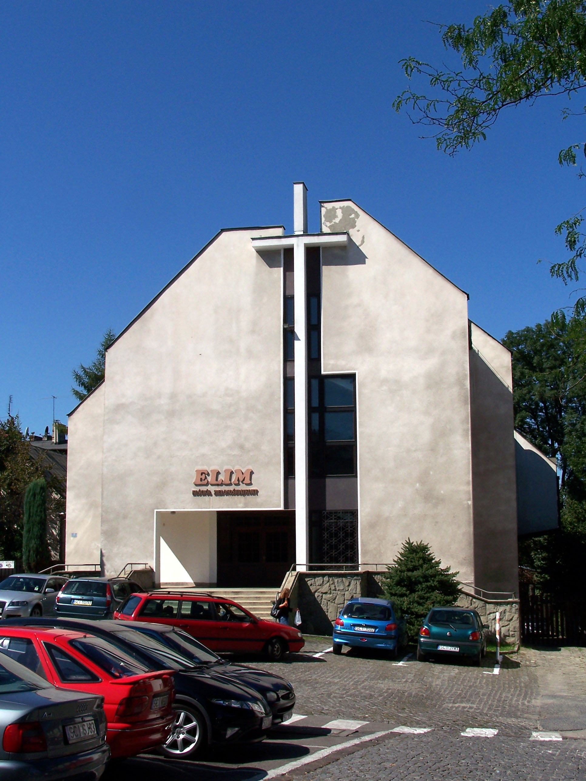 Pentecostal Church in Cieszyn.